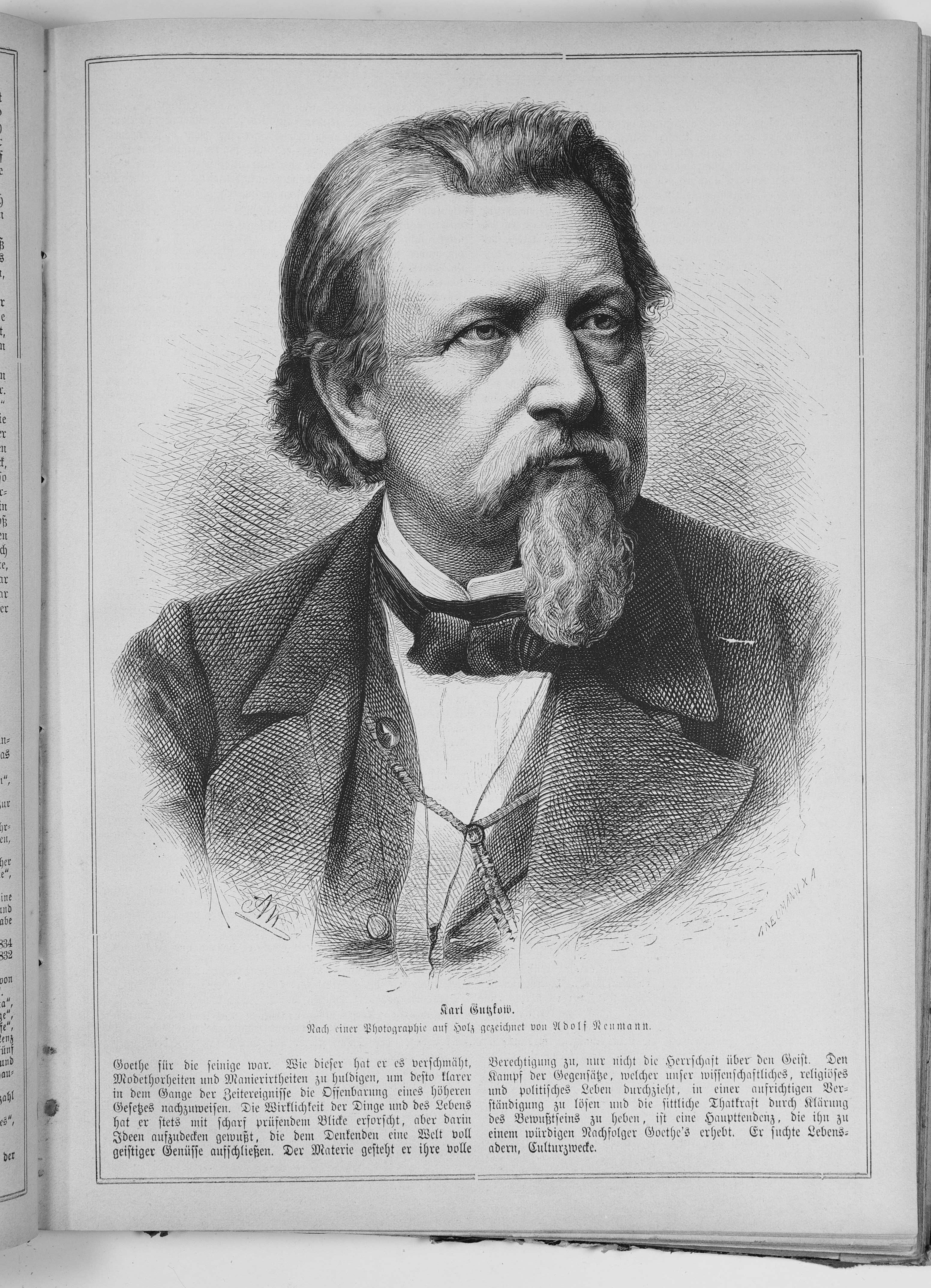 no caption